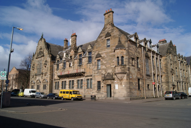 The Pearce Institute. A Grade A listed building in the heart of Govan. Follow this for information about the PI. See also 1444298.